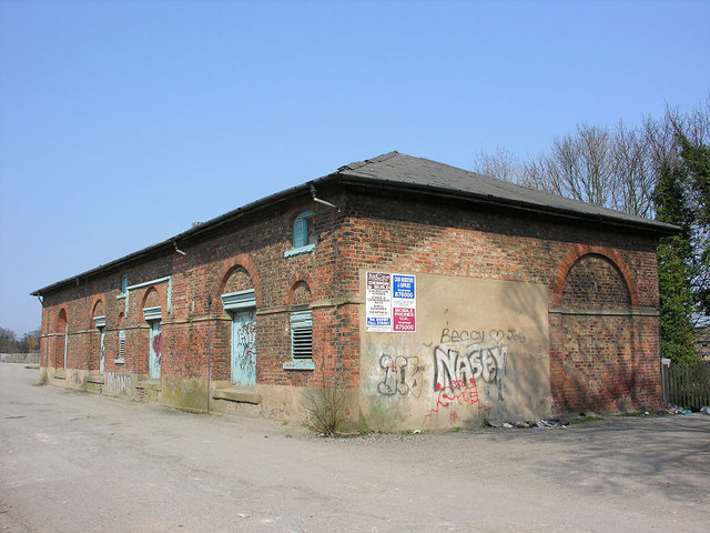 Railway Goods Shed, Cottingham, East Riding of Yorkshire, England.Former goods shed on the west side of the tracks immediately north of the station; it had a line running through it as witnessed by the bricked-up doorways in the north and south faces.